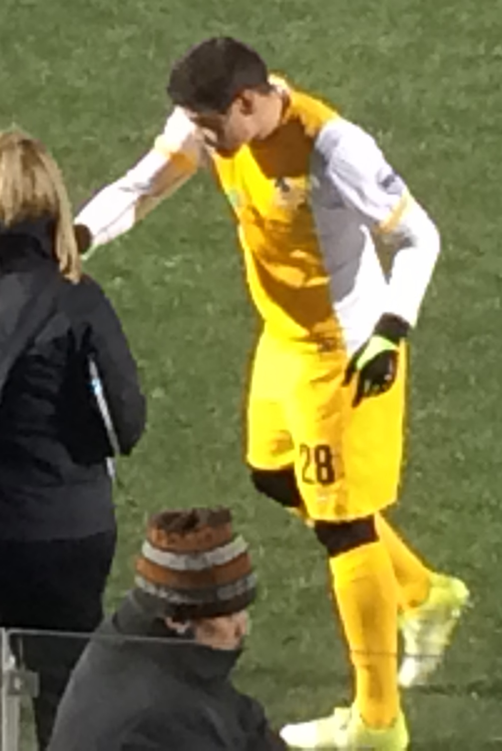 Vini Dantas with Riverhounds during 2015 season opener against Harrisburg City Islanders